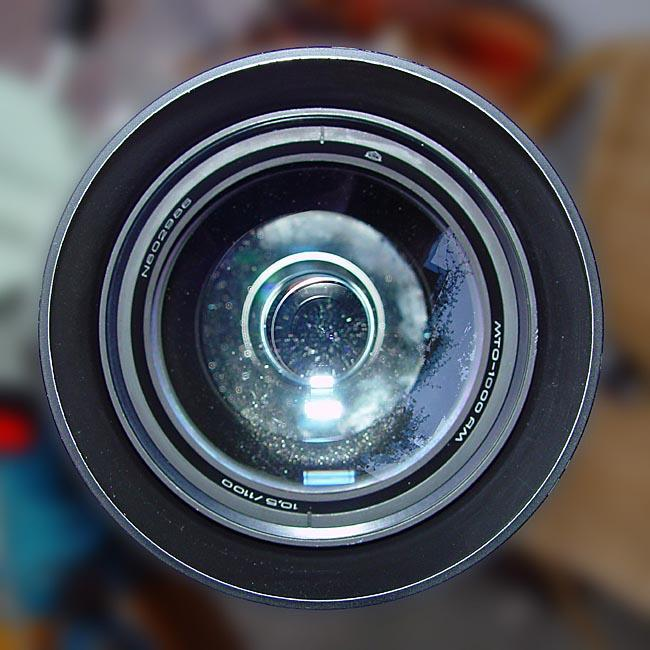 Russian soviet mirror supertelephoto lens «MTO-1000am» 10,5/1100.